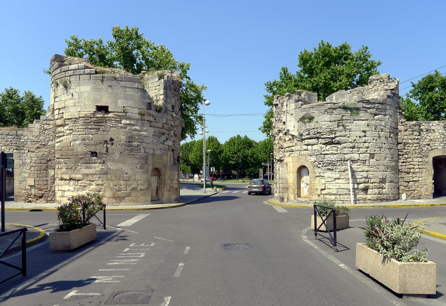 Cavalerie gate - Arles, France